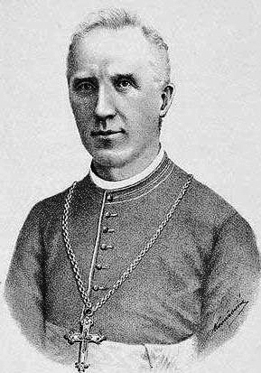 Archbishop of Sarjaevo Josip Štadler